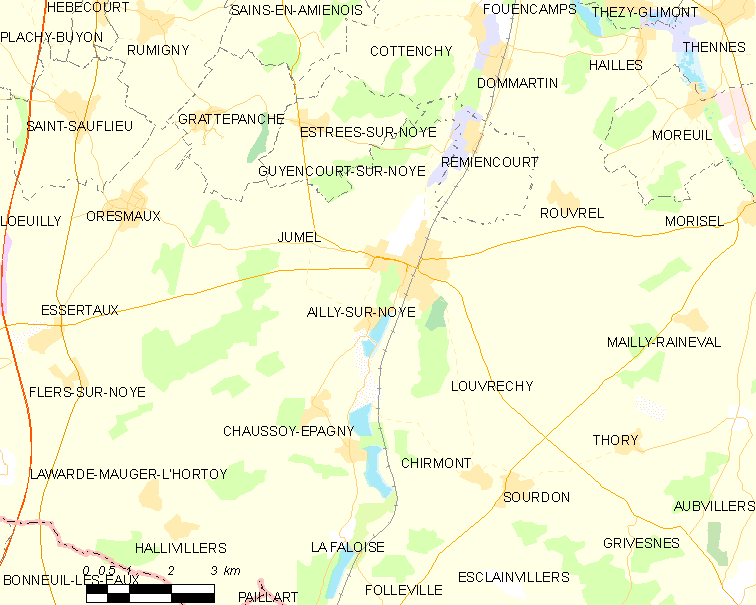 Map of French municipality Ailly-sur-Noye